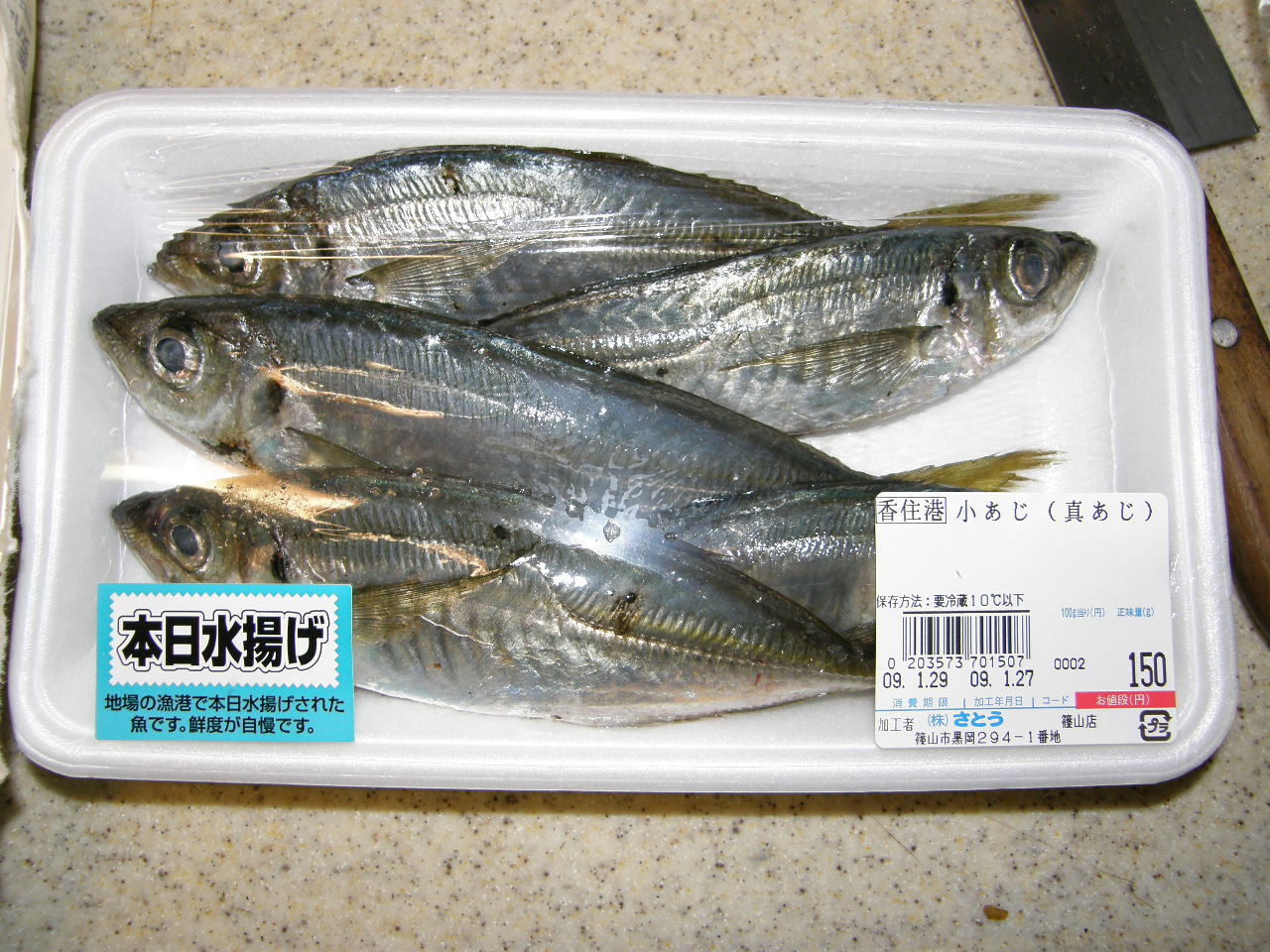 Trachurus japonicus 、マアジ